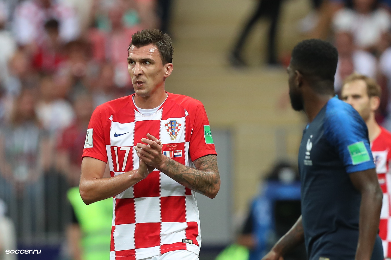 Mario Mandžukić (right) playing for Croatia at the 2018 FIFA World Cup Final.